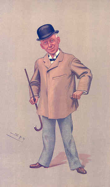 Caricature of William Sydney Penley. Caption read "Charley's Aunt".